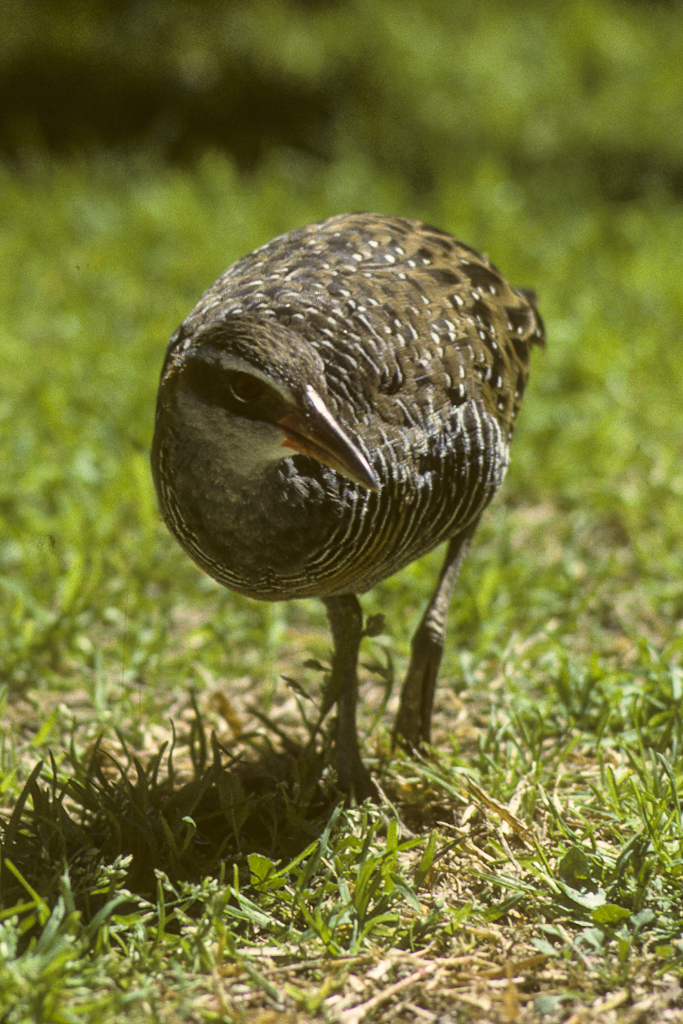 Buff-banded Rail - Heron Is - AustraliaImage47